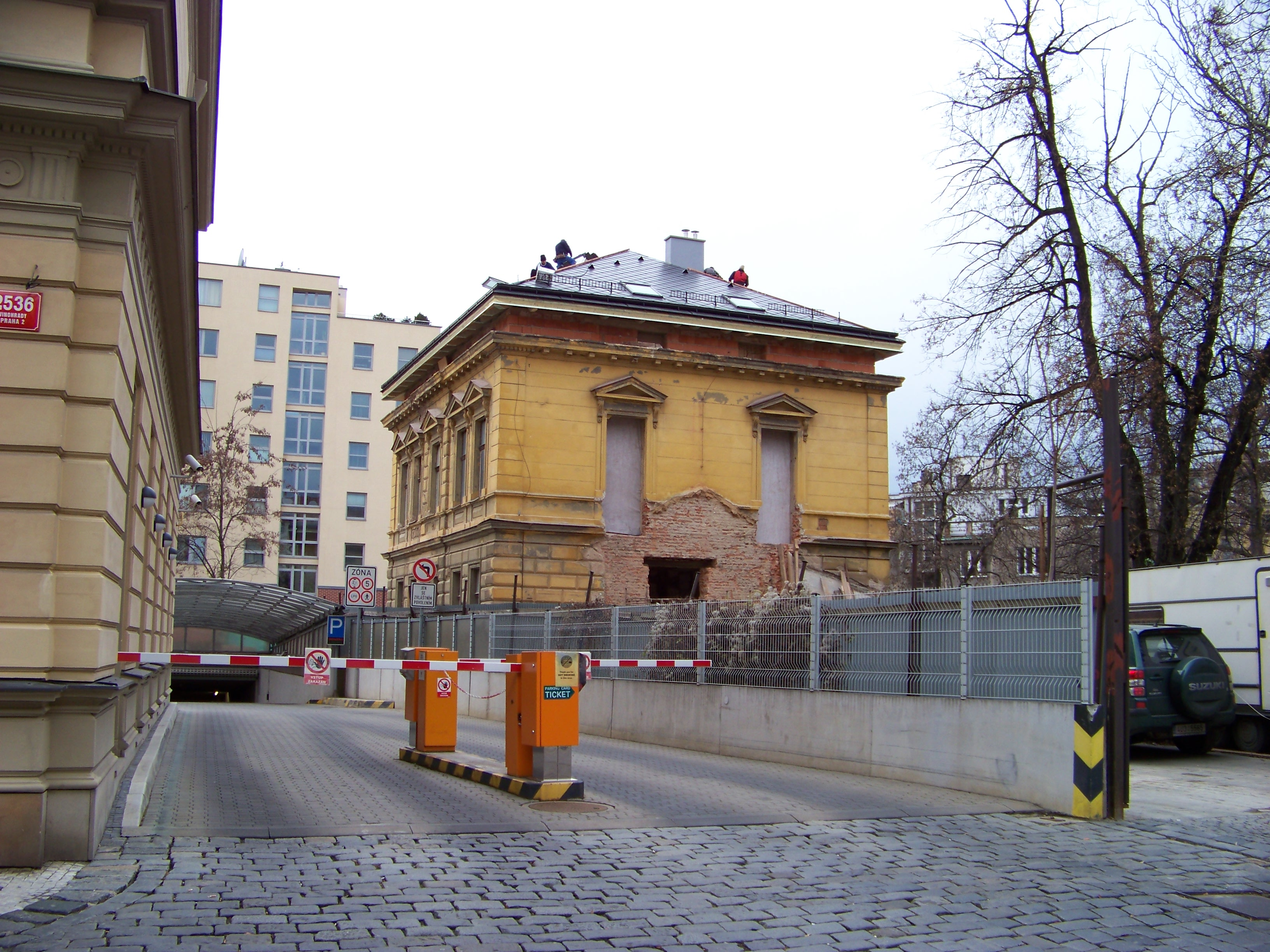 Prague-Vinohrady, the Czech Republic. U Zvonařky 291/3. - OpenStreetMap(Info)